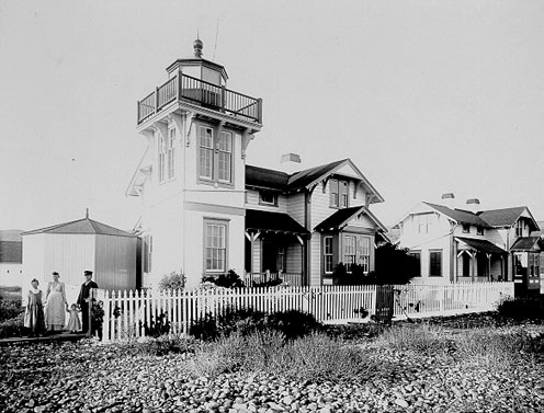 Public Domain statement here; Ballast Point Light is a lighthouse in California, United States, on a tiny peninsula extending from Point Loma, California.